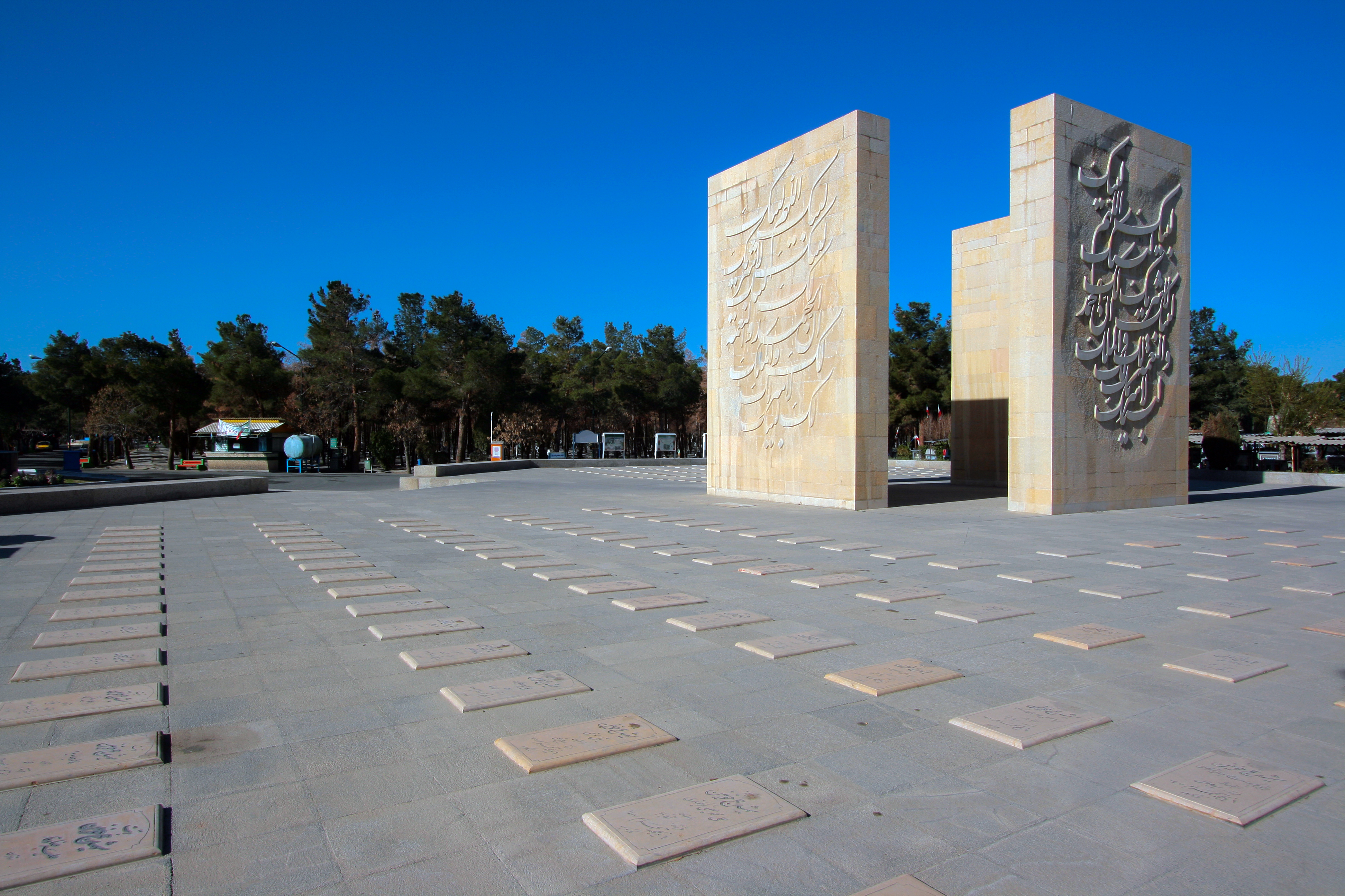 The 1987 Mecca incident was a clash between Shia pilgrim demonstrators and the Saudi Arabian security forces, during the Hajj pilgrimage; it occurred in Mecca on 31 July 1987 and led to the deaths of over 400 people. The event has been variously described as a "riot" or a "massacre".